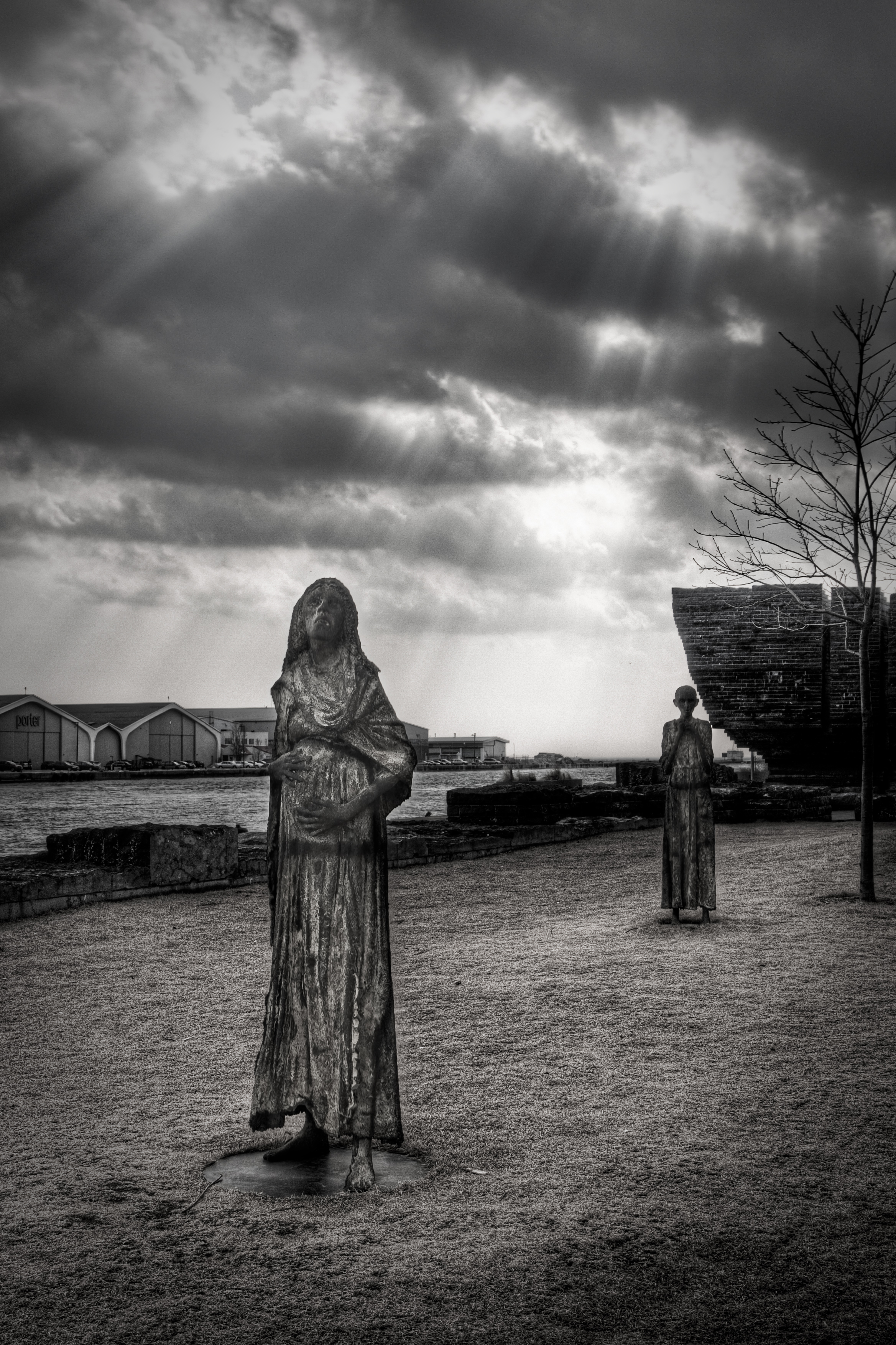 The "Pregnant Woman" statue at Ireland Park, Toronto Ireland Park has several statues by Rowan Gillespie and they honour the Irish immigrants who fled during the Famine of 1847 and the 38,000 who arrived in Toronto that summer when the City's population was a mere 20,000.